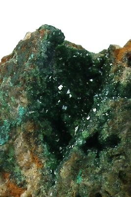 Pharmacosiderite Locality: Wheal Gorland, St Day United Mines (Poldice Mines), Gwennap area, Camborne - Redruth - St Day District, Cornwall, England, UK (Locality at ) Size: 5.5 x 5.3 x 2.7 cm. Brilliant sub-mm green crystals of Pharmacosiderite are abundant in several vugs of this nice large matrix specimen. Classic, old English material.